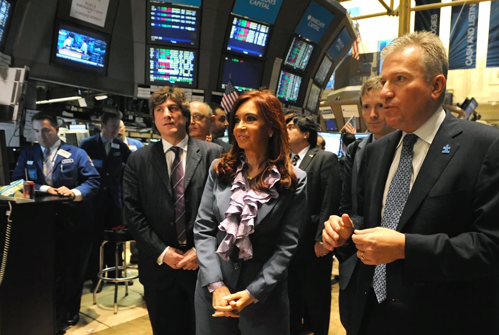 President of Argentina Cristina Fernandez with Minister of Economy Amado Bodou and CEO Duncan Niederauer at the New York Stock Exchange